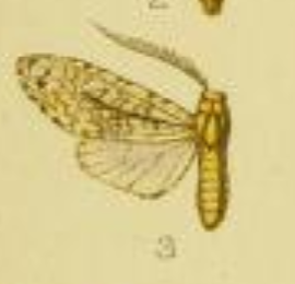 Drawing of Lophocampa maroniensis